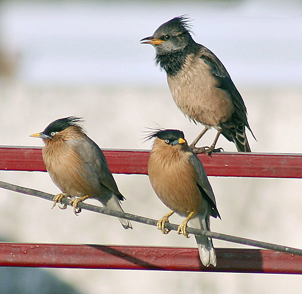 Rosy Starling Sturnus roseus at Hodal in Faridabad District of Haryana, India.